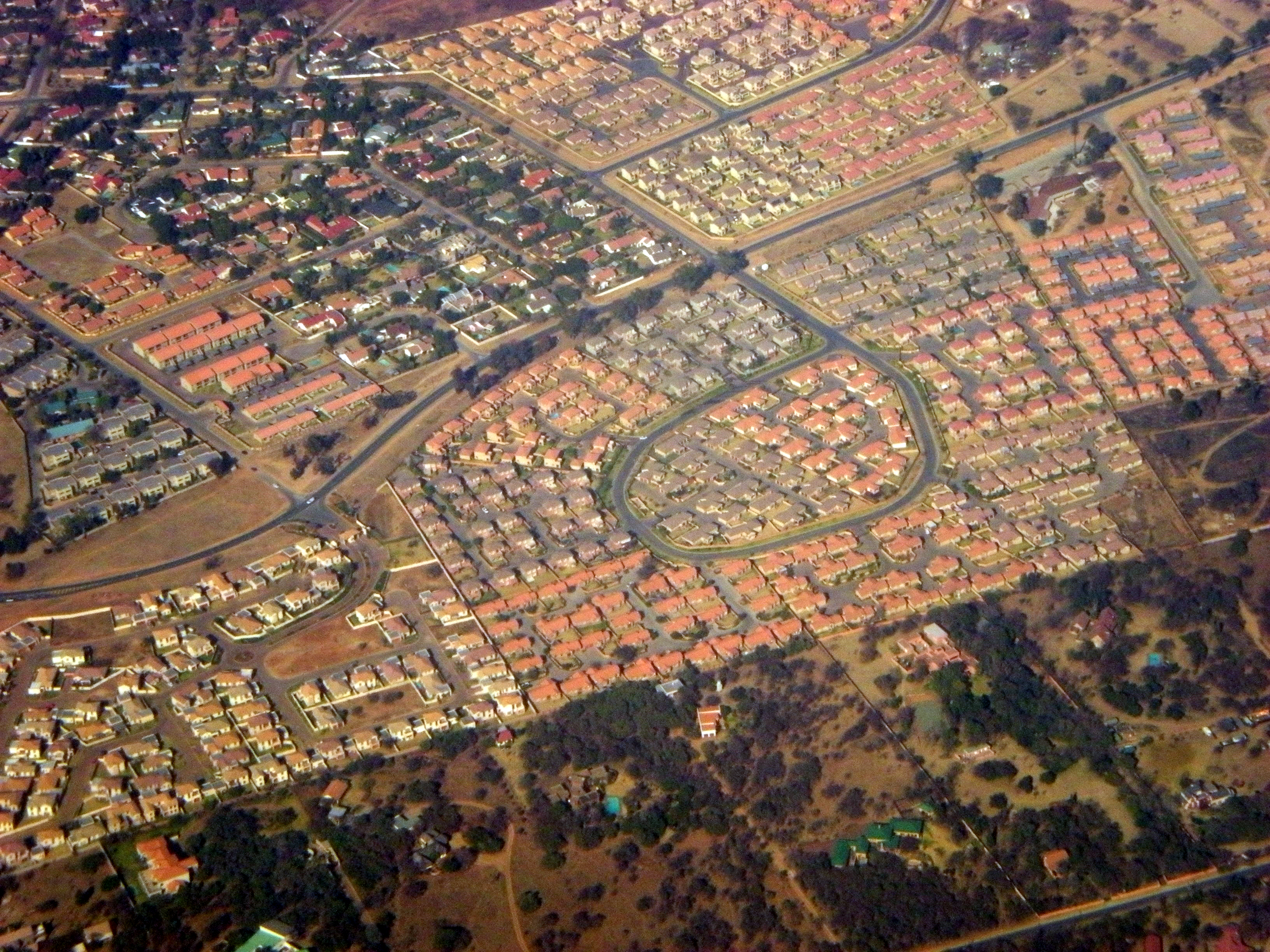 View over Gaborone, Botswana from the air. Quite a lot of new buildings. The country is prospering from its diamond mines.